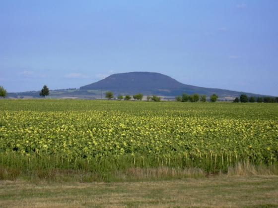 The Říp mountain, a 459 m solitary hill rising up from the central Bohemia flatland where, according to a legend, the first Czechs settled down. Říp is located 25 km south-east of Litoměřice, Czech Republic.